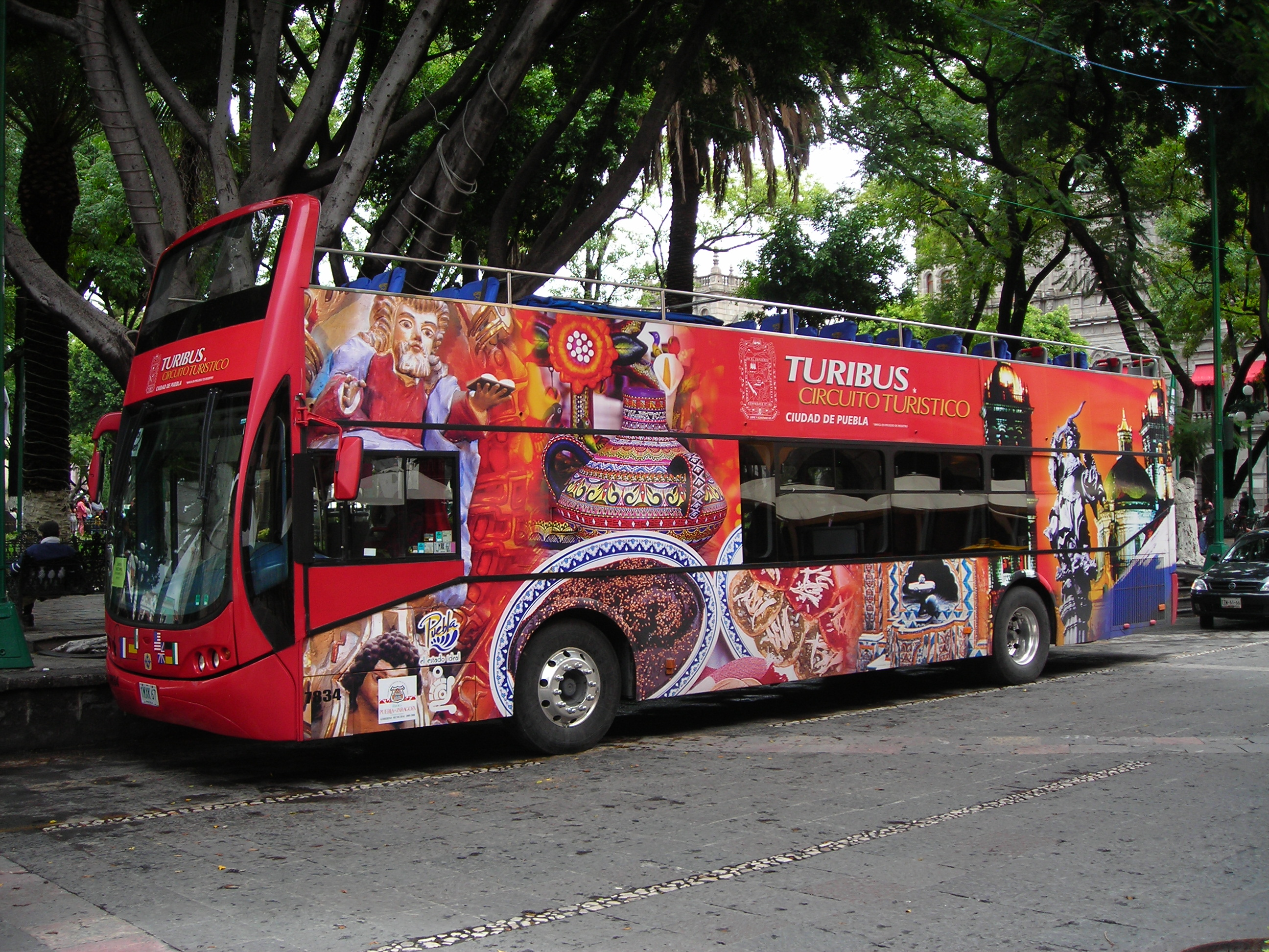 Turibus in the city's downtown.